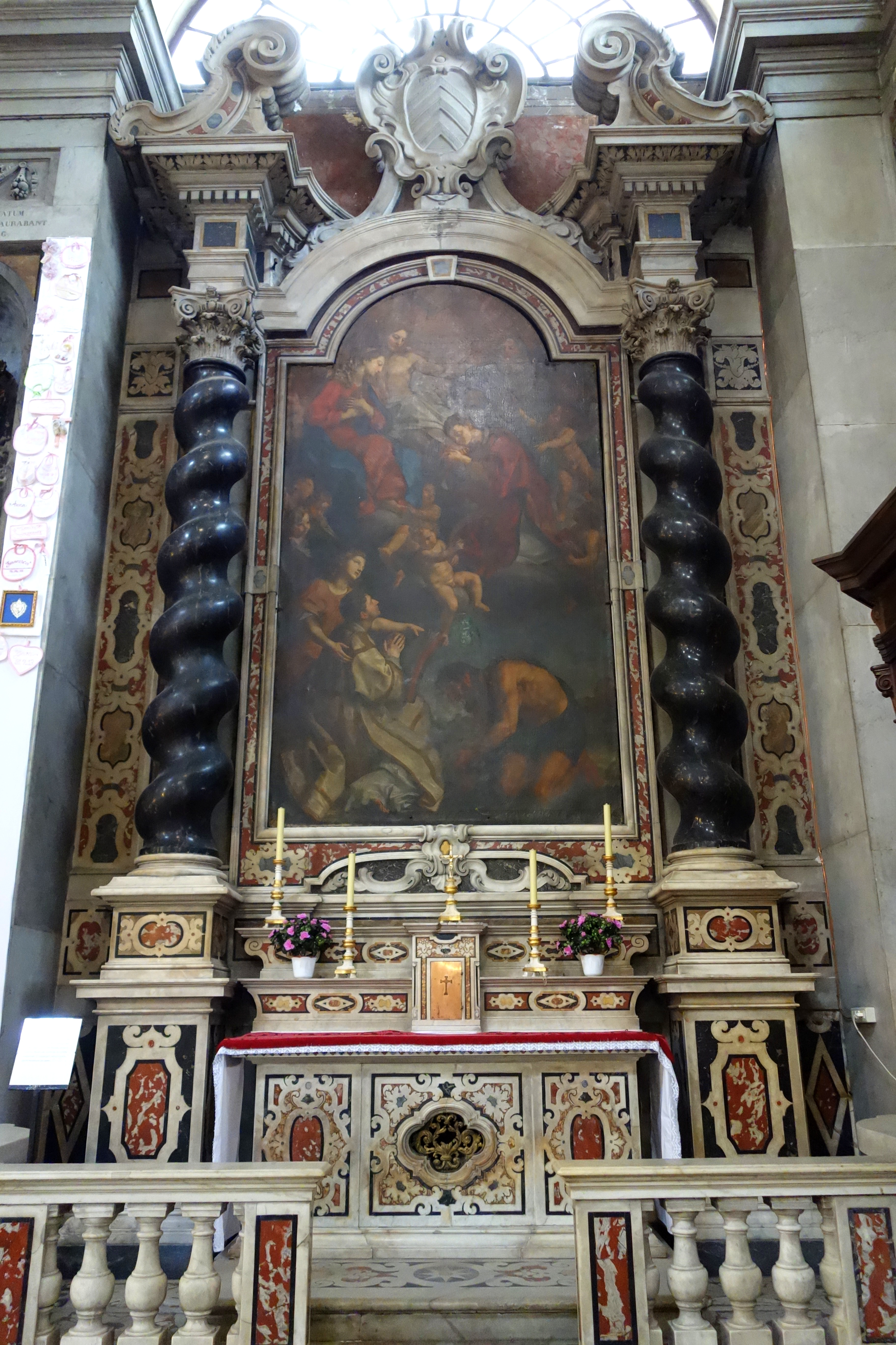 Artwork in Santa Maria delle Vigne (Genoa, Italy). This work is old enough so that it is in the public domain.